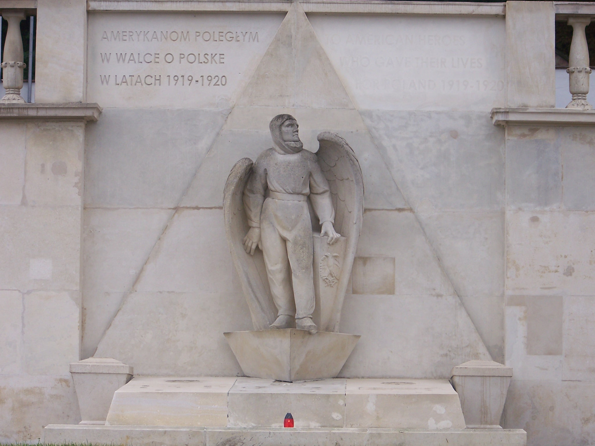 Cemetery of the Defenders of Lviv, monument of American pilots